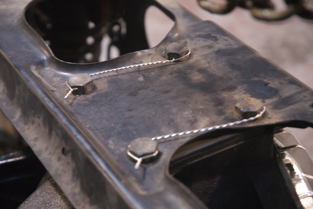 Correct application of safety wiring on the bolts attaching the differential housing to the rear suspension subframe of a 1995 Jaguar XJS.